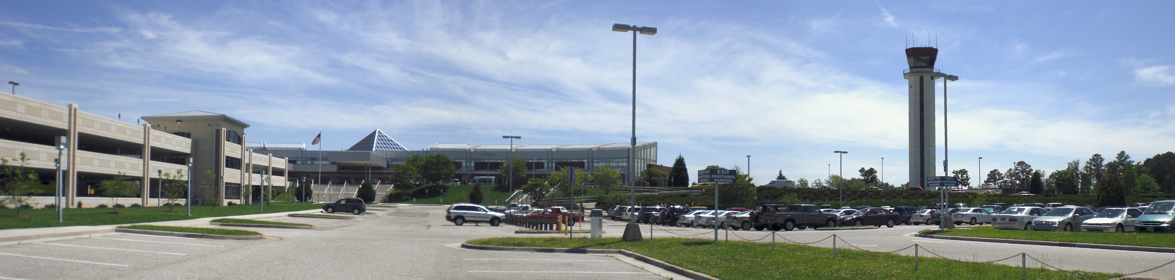 panoramic view of Newport News-Wiliamsburg Airport